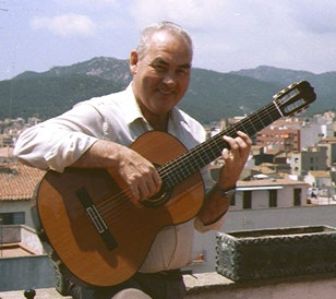 Picture of Eythor Thorlaksson